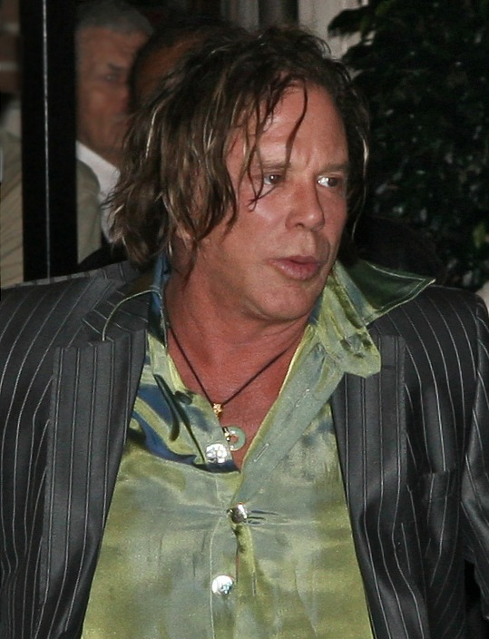 Mickey Rourke at the 2008 Toronto International Film Festival